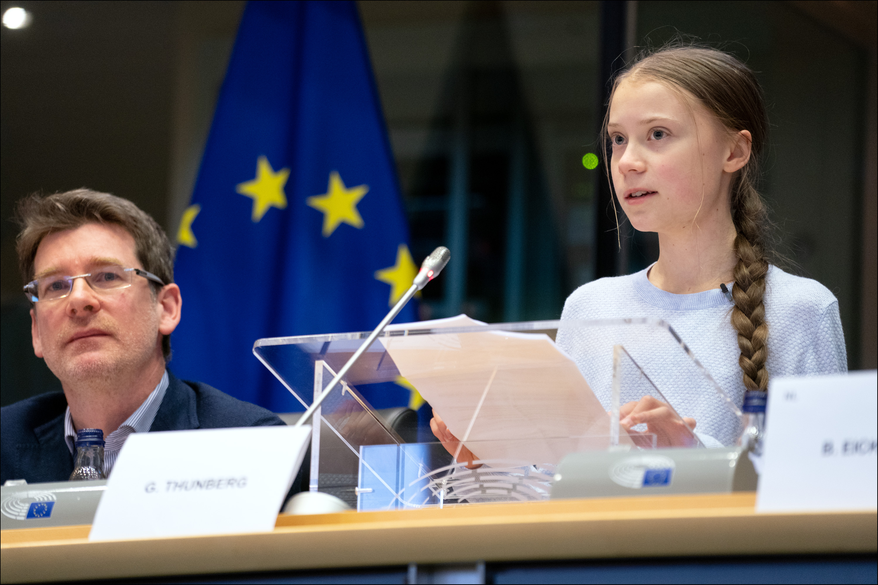 Climate activist Greta Thunberg discussed EU plans to tackle the climate emergency with Parliament’s environment committee on Wednesday 4 March. The climate activist was at the Parliament to discuss the Climate Law, a proposal seeking to commit the EU to carbon neutrality by 2050. Addressing the committee, Thunberg criticised the proposal as insufficient: “The EU must lead the way. You have the moral obligation to do so and you have a unique economical and political opportunity to become a real climate leader. You, yourselves, declared that we are in a climate and environment emergency. You said this was an existential threat. Now you must prove that you mean it.” It is vital to follow “ a science-based pathway”. “Anything else is surrender,” she said. “This climate law is surrender because nature doesn’t bargain and you cannot make deals with physics.” Introducing her, environment committee chair Pascal Canfin said: “Everyone has their role to play in this. I am deeply convinced that what we need is the energy of our young people. No society is transformed, no society can respond to the kind of challenges we face on climate if we do not take on board the energy coming from our young people. And you embody that.” Read more: This photo is free to use under Creative Commons license CC-BY-4.0 and must be credited: "CC-BY-4.0: © European Union 2020 – Source: EP". No model release form if applicable. For bigger HR files please contact: webcom-flickr(AT)